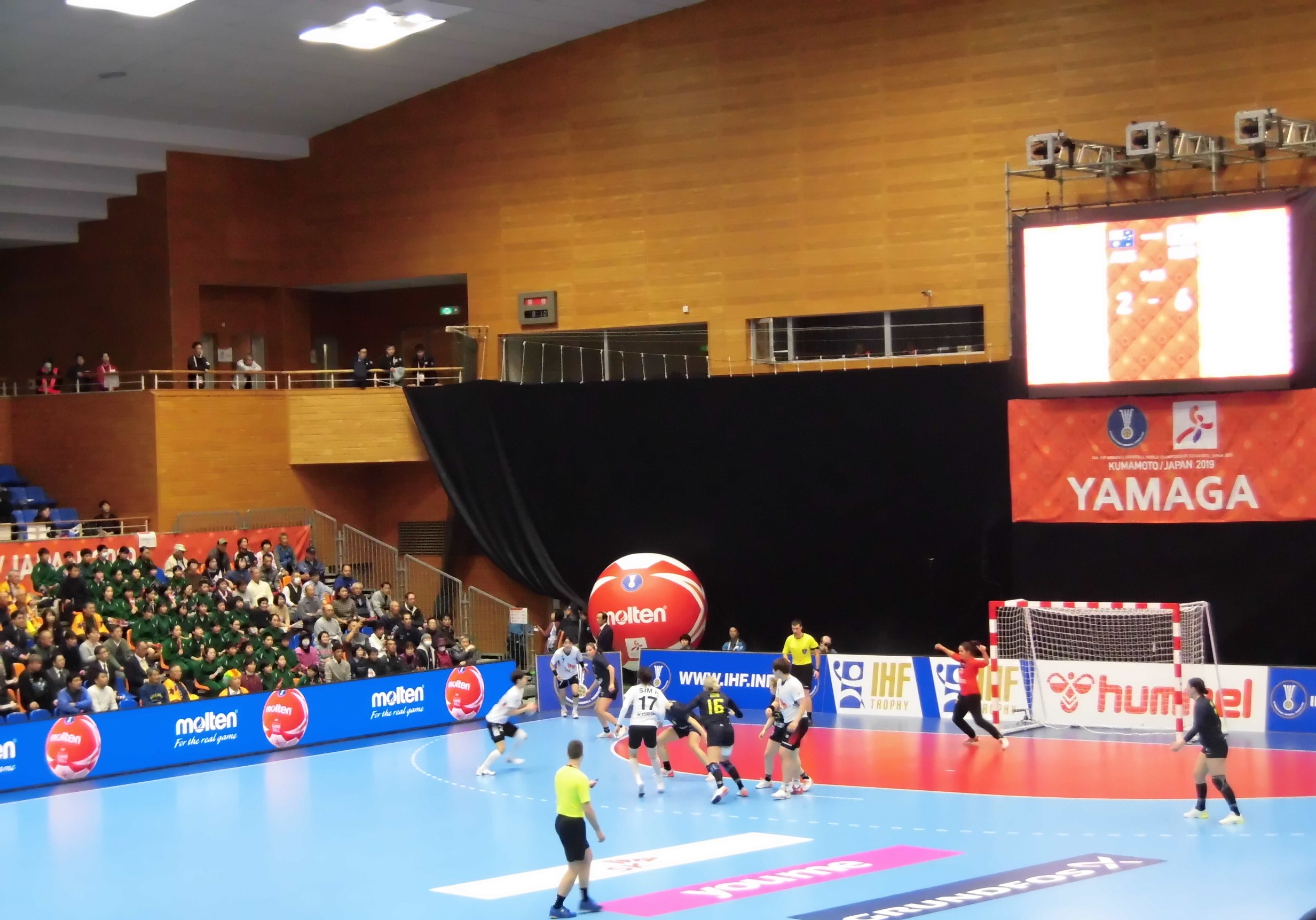 24th IHF Women's Handball World Championship Kumamoto 2019 Australia-Korea